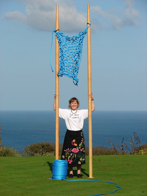 Julia Hopson of Knit Wits, Penzance, Cornwall with the 'Guinness World Record' for knitting with 'the largest knitting needles in the world'. More Details[1]